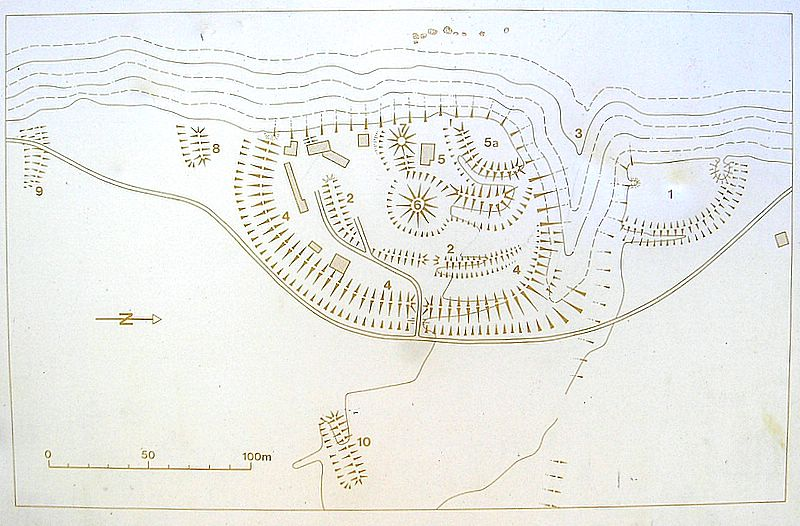 Westerholz earthworks near Landsberg am Lech (Kaufering, Upper Bavaria, Germany). Ground plan (Information board at the entrance to the "great earthwork").